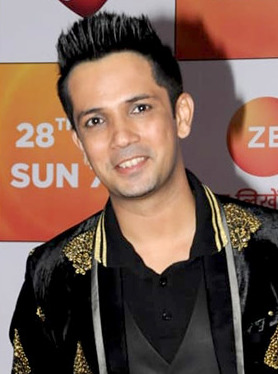 Mudassar Khan grace the Zee Rishtey Awards 2018